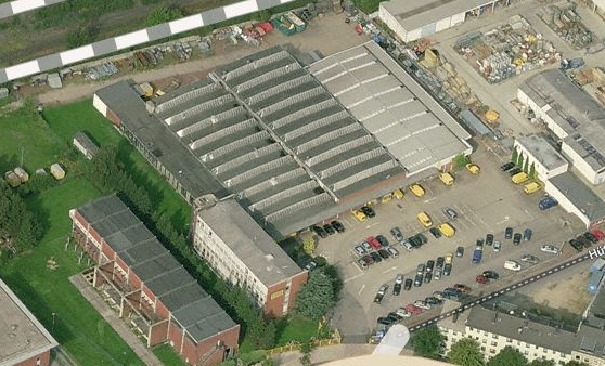 Theod. Mahr Söhne GmbH Luftaufnahme